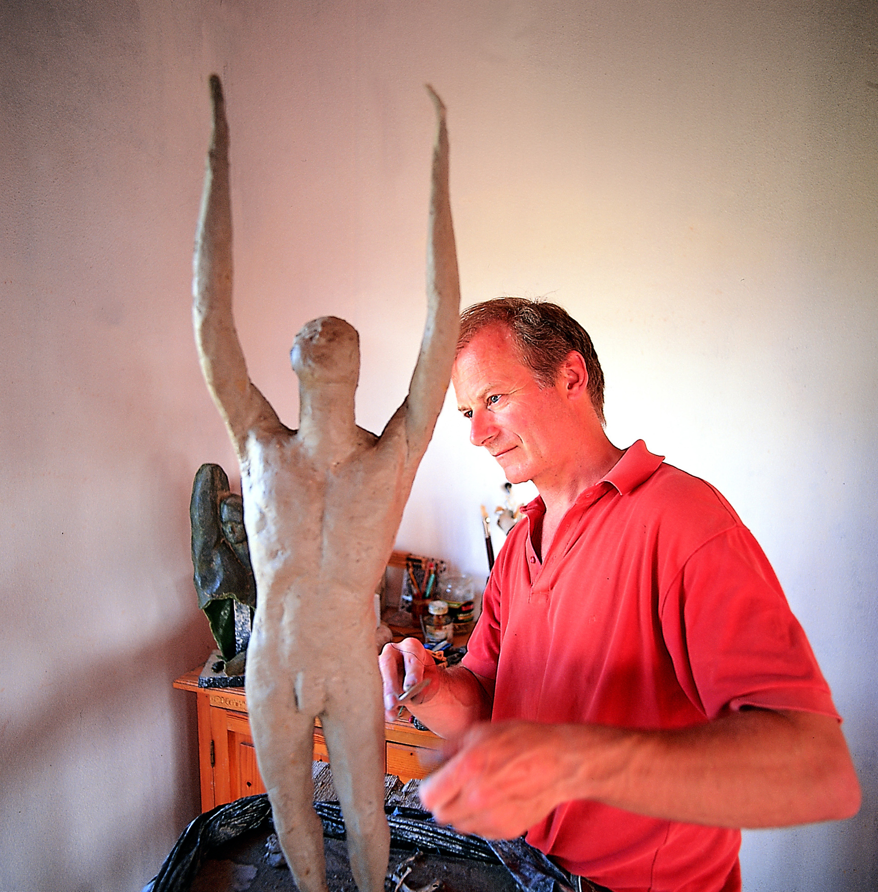 David Cregeen workin on Oberon